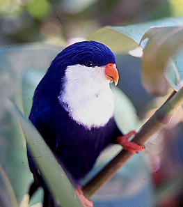 Vini - Lori péruviana - picture taken at Rangiroa, Tuamotu, French polynesia